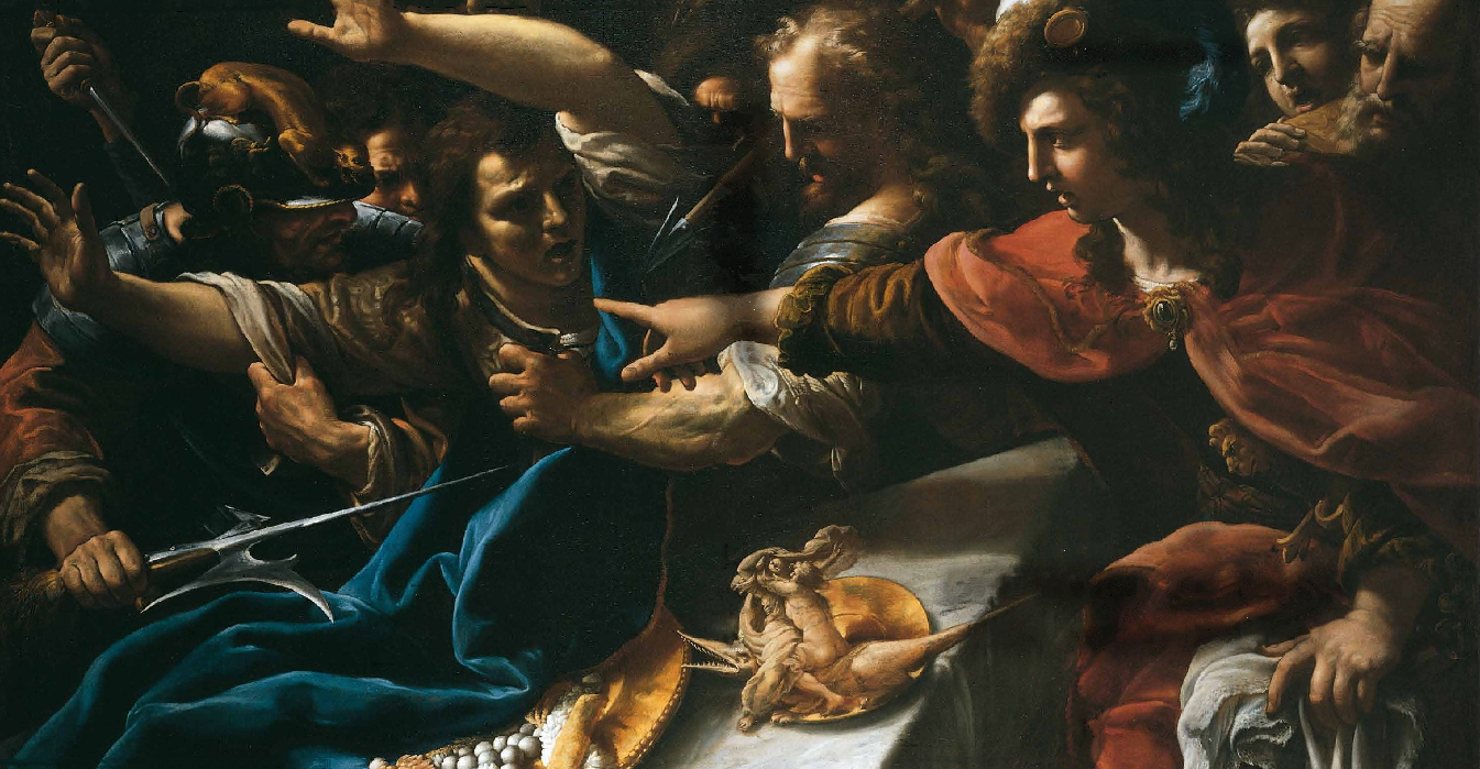 Convito di Assalonne